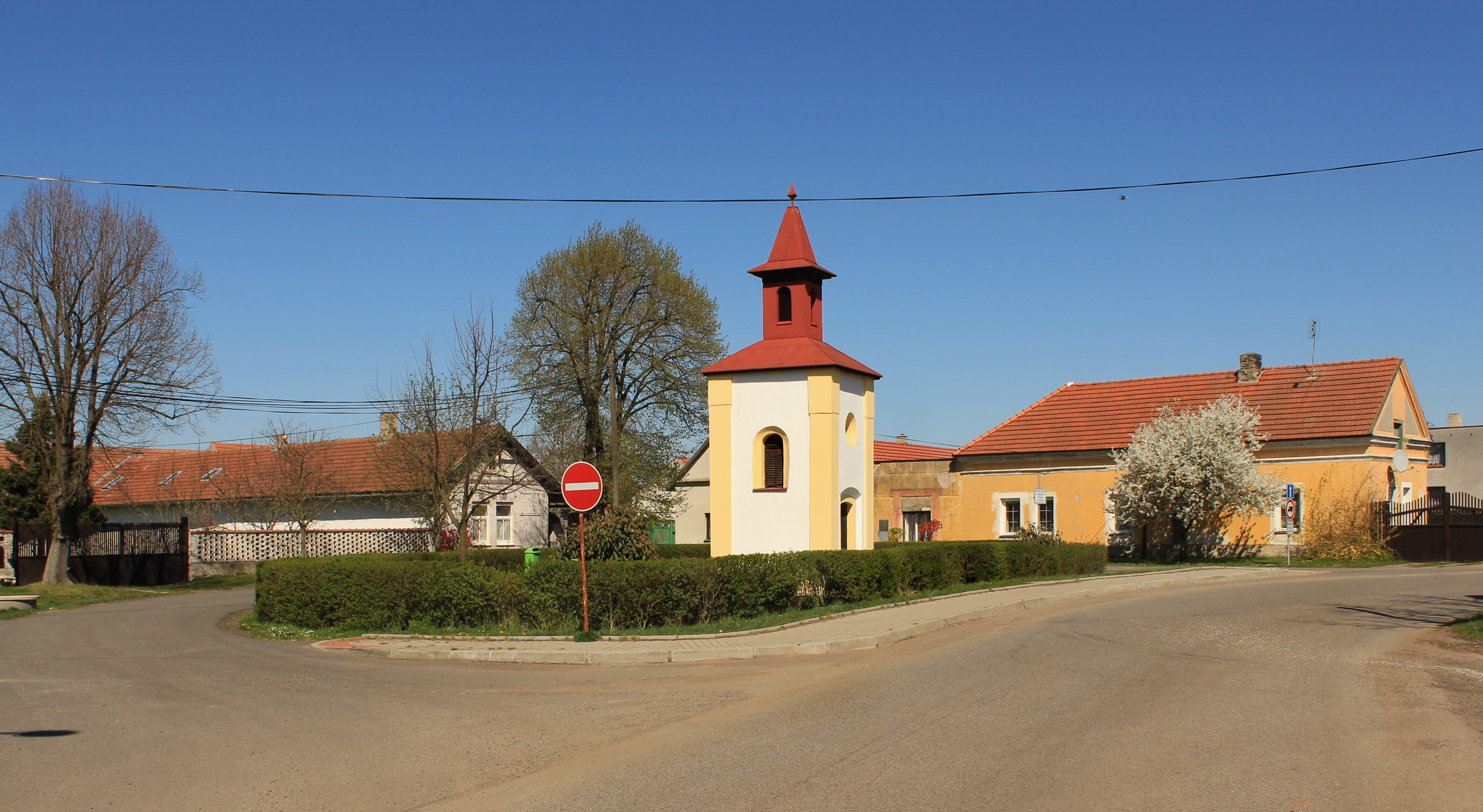 Common in Zvěřínek, Czech Republic.